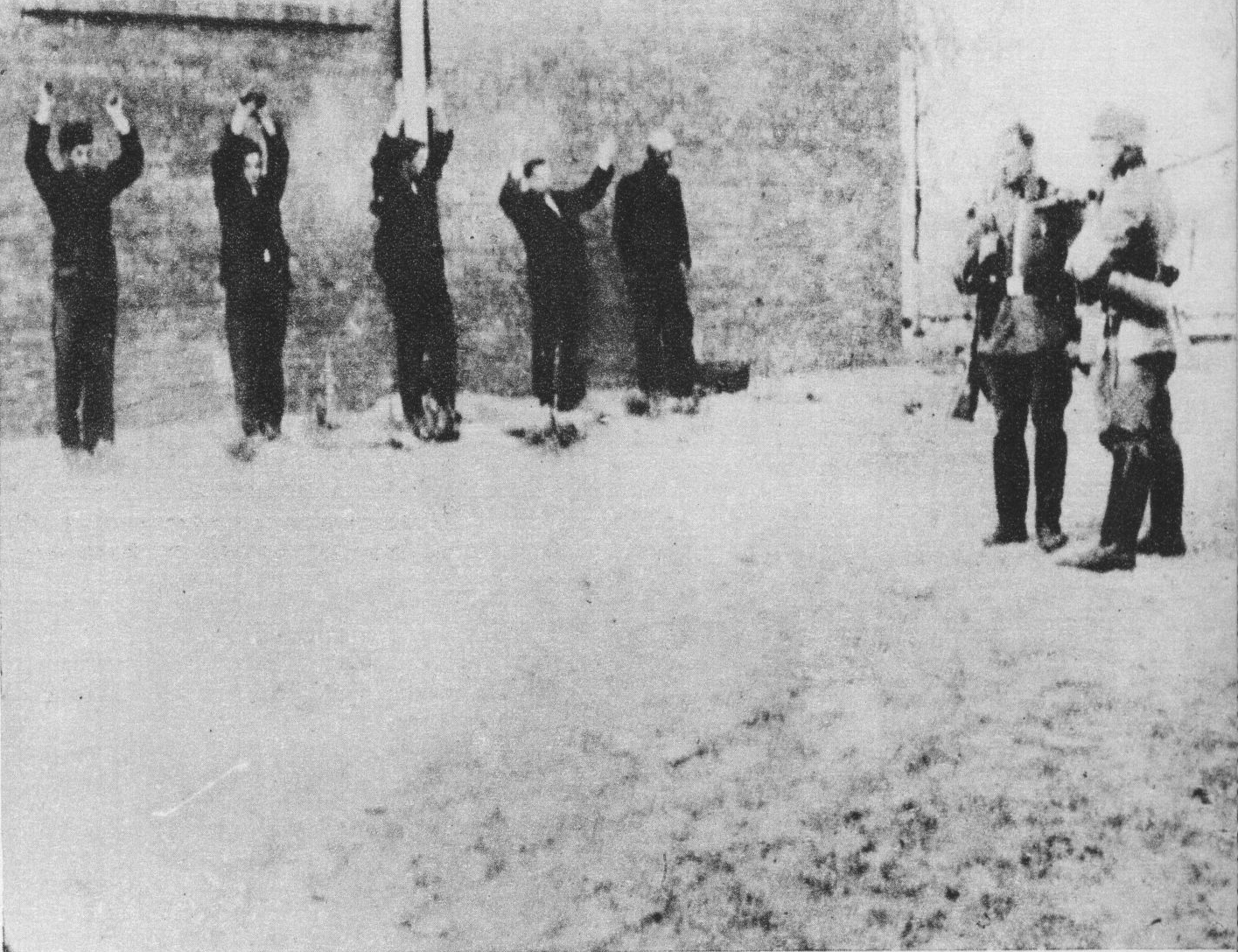 8th September 1939 in German-occupied Bydgoszcz. Execution of Poles in the artillery barracks at 147 Gdańska Street.